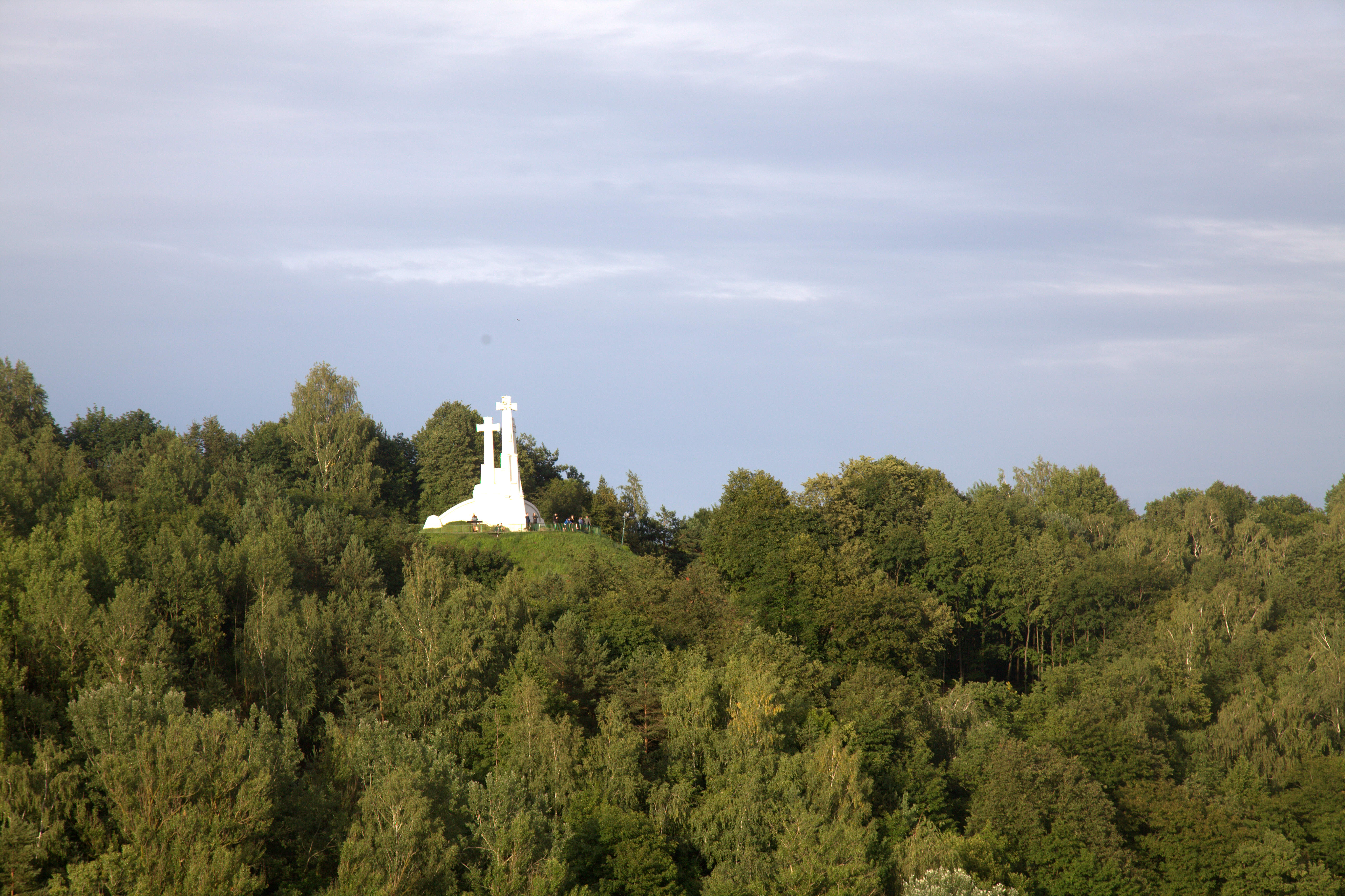 The three crosses in Kalnai park in Vilnius.View from Gediminas' Tower.